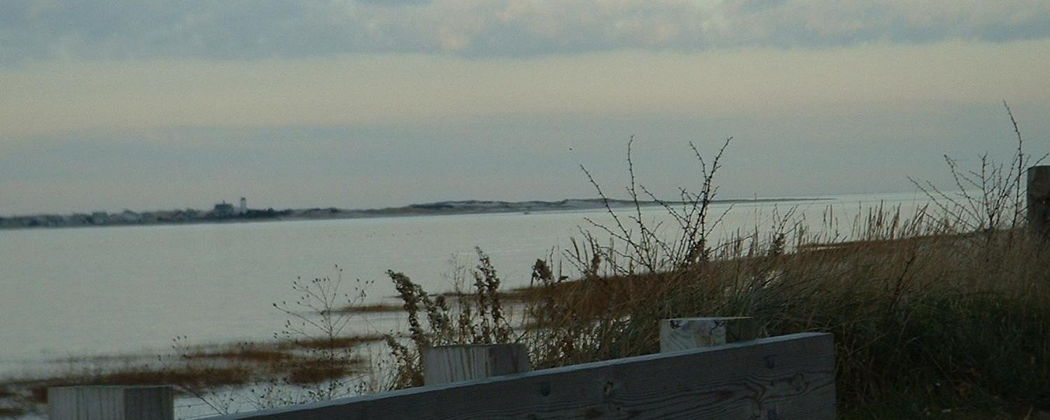 Barnstable Harbor, as seen from Millway Beach. The Sandy Neck Lighthouse can be seen in the distance.